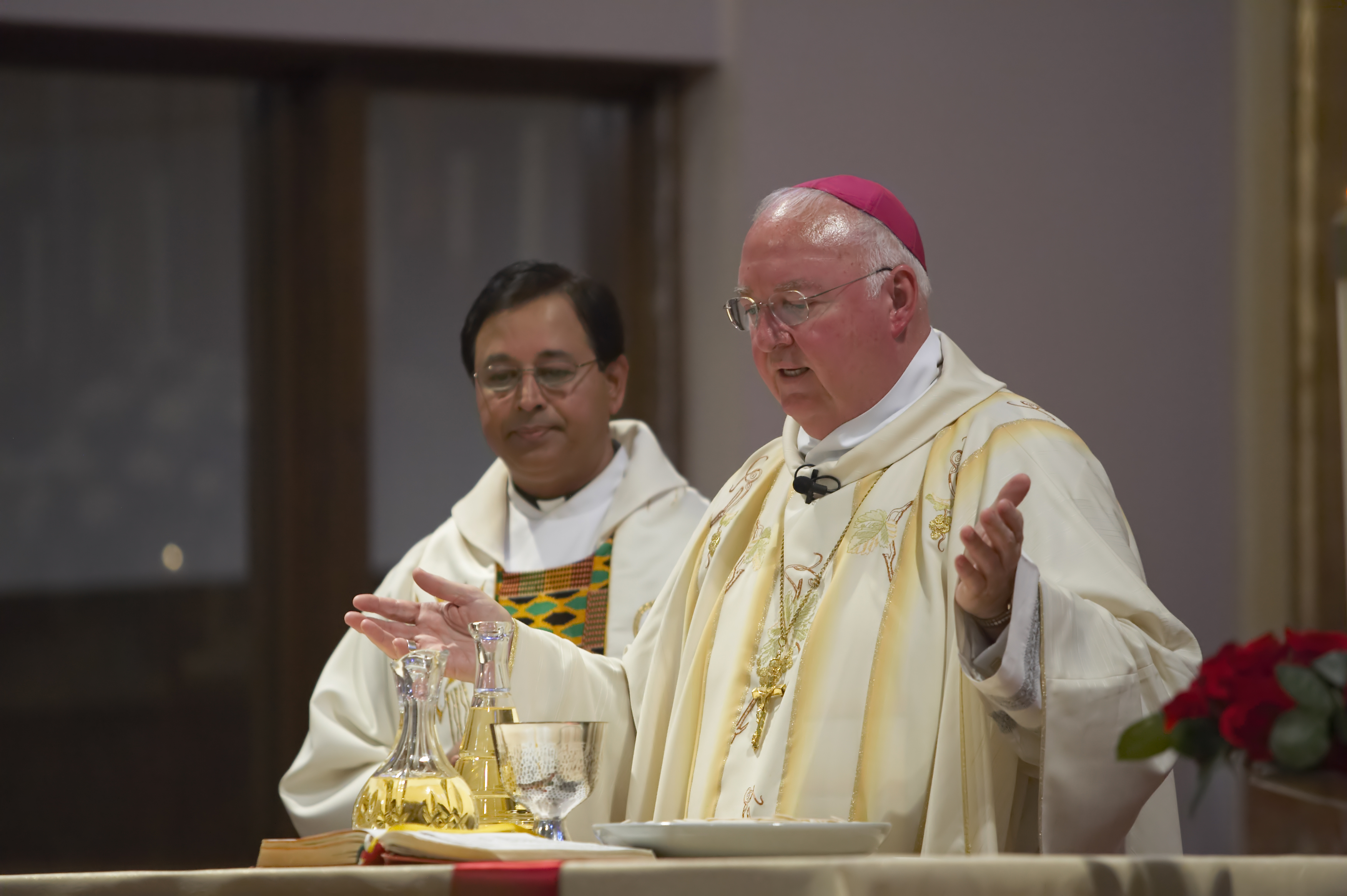 Bishop Patrick Joseph McGrath consecrating the Sacraments with Pastor George Aranha at Saint Albert the Great Church in Palo Alto, California.